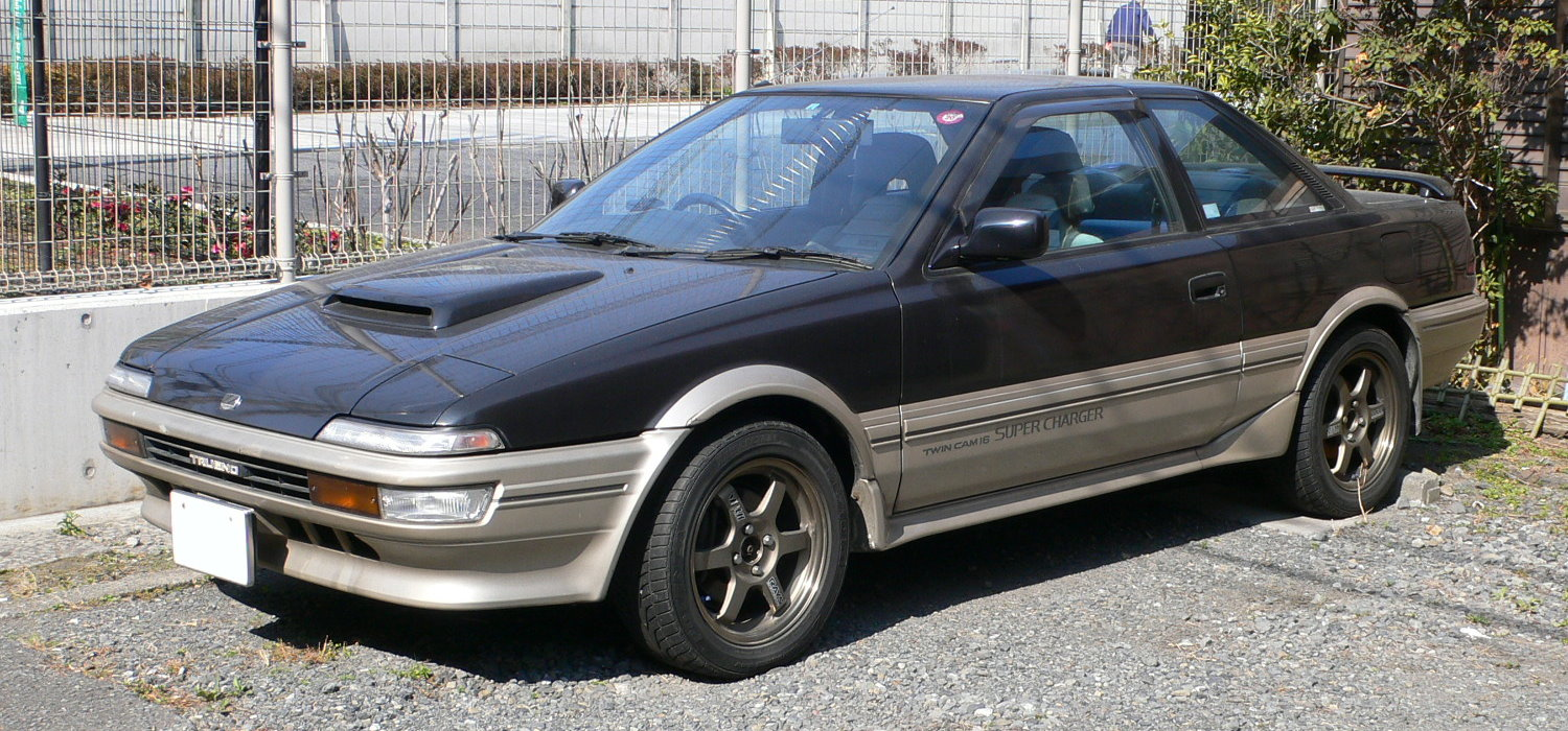 7th generation Toyota_Sprinter-Trueno (AE92 GT-Z) (1987/5 - 1989/5)